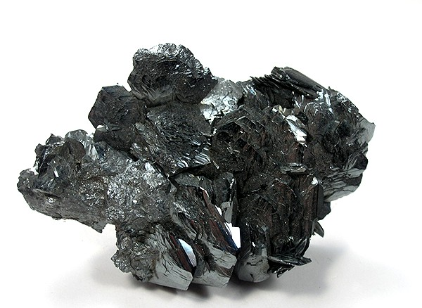 Hematite Locality: Rio Marina, Elba Island, Livorno Province, Tuscany, Italy (Locality at ) Flattish, intergrown plates of showy silvery hematite - classic old material from this island! ex. Dr. Gary Hansen dealer stock and not shown since early 1980s. 7 x 5 x 2 cm